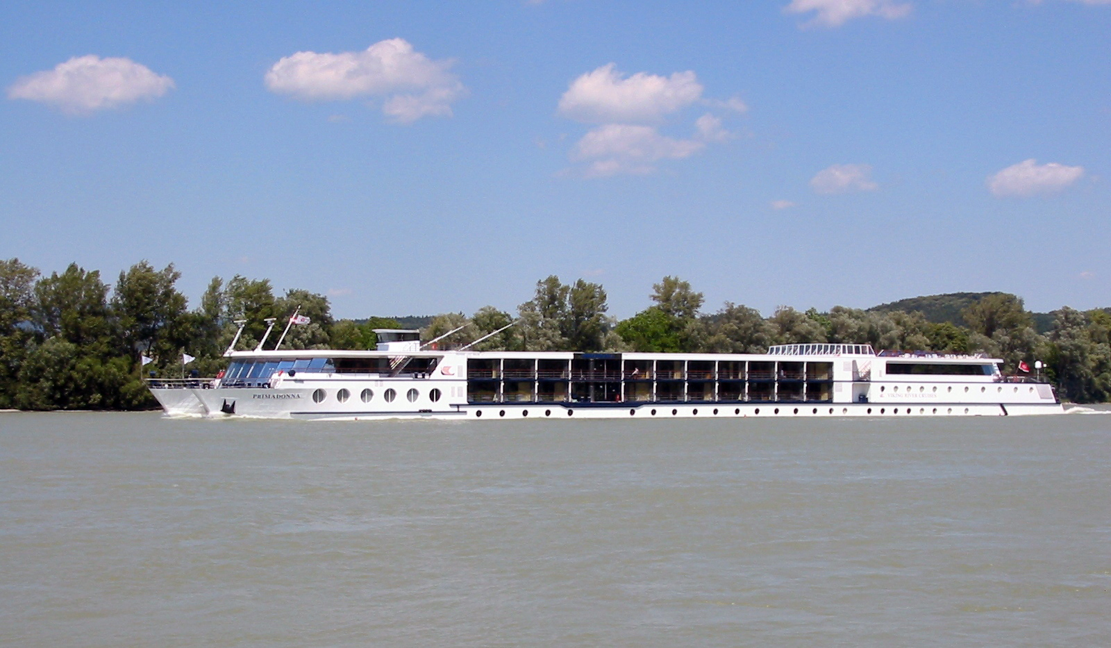 The Ship Primadonna of the Viking River Cruises on the Danube close to Ybbs an der Donau.